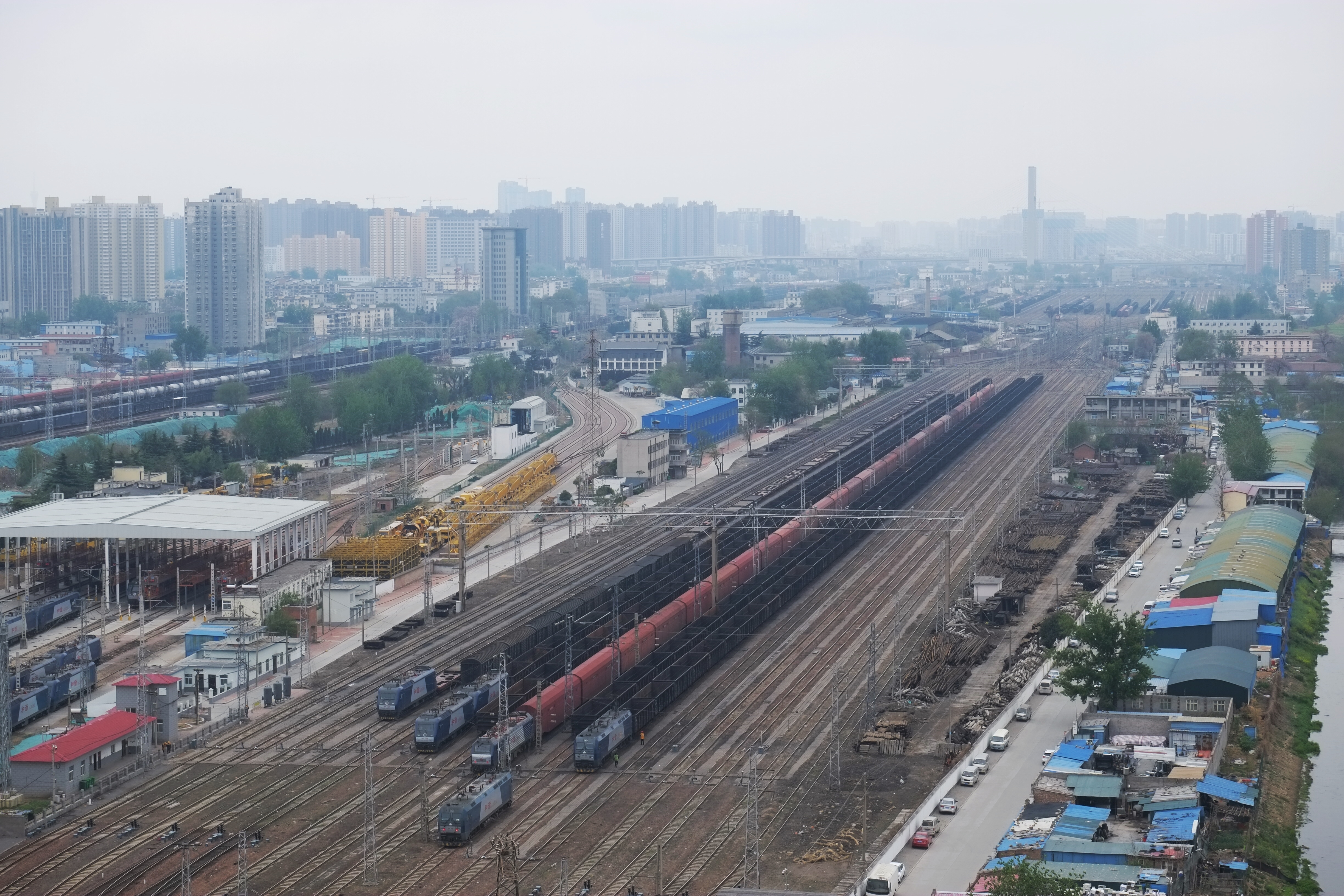 Zhengzhou North Railway Station